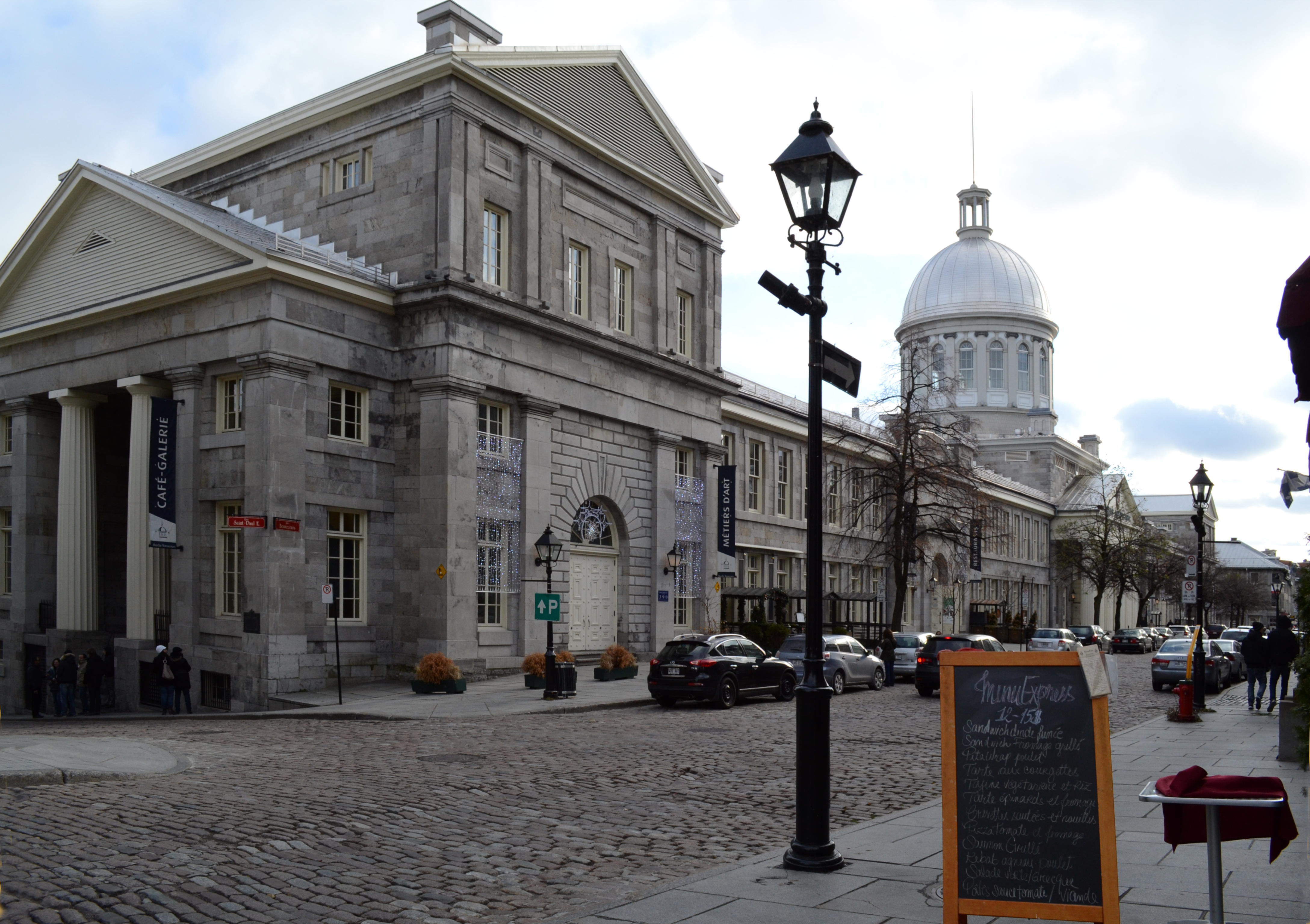 The symmetrical composition and Greek Revival portico (the cast-iron columns were brought from England), tin-plated dome and simple and varied details make the Marche' Bonsecours/ Bonsecours Market a perfect illustration of the Neo-classical style in favour at the time. Recent renovations have turned it once again into a bustling marketplace that also features shops and exhibitions. (Montreal, Canada, Dec. 2012)